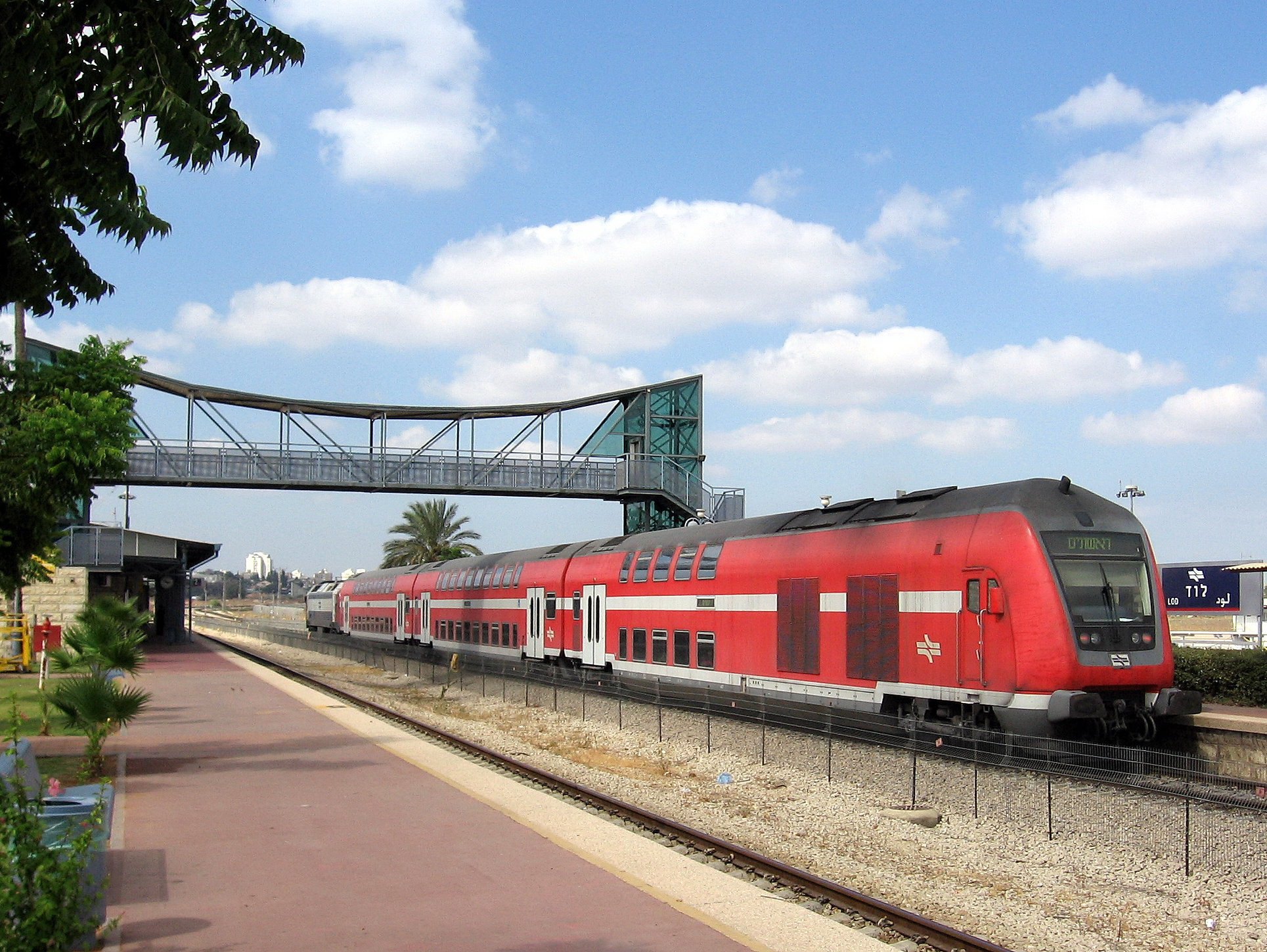 Israel Railways, Lod Station